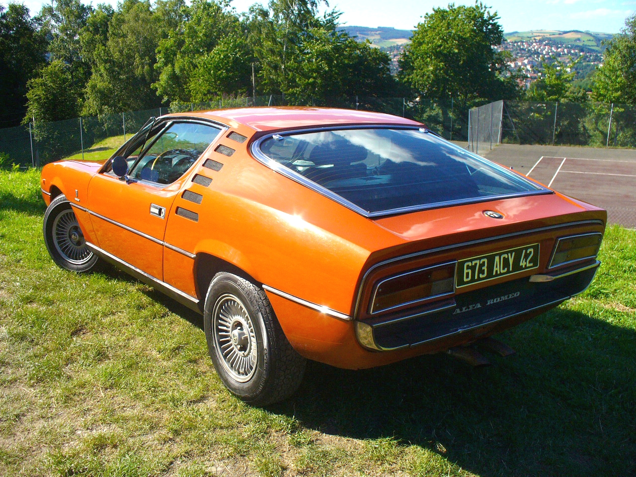 My Alfa Montreal from 1973, picture taken in La Talaudière (F) in 2008